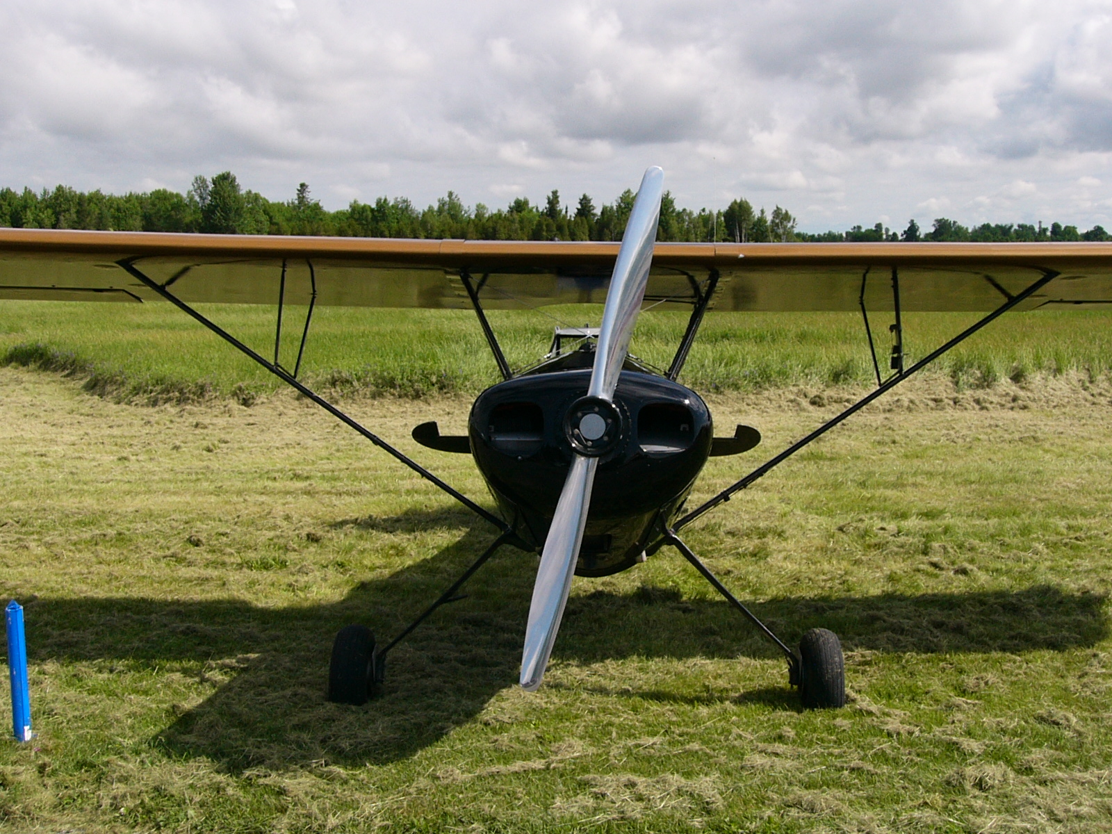 Bakeng Deuce (later called the Deuce) amateur-built aircraft at the Cornwall, Ontario, Canada Fly-in.